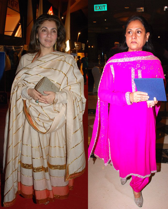 Indian actresses Dimple Kapadia and Jaya Bhaduri Bachchan (montage to illustrate their "tie" win of Filmfare Award)